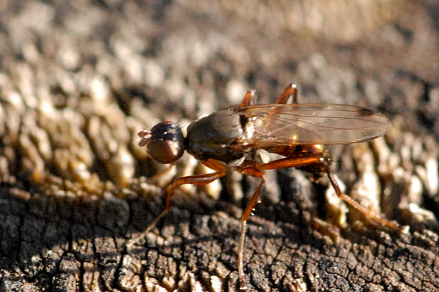 Sepsis punctum from Commanster, Belgian High Ardennes .